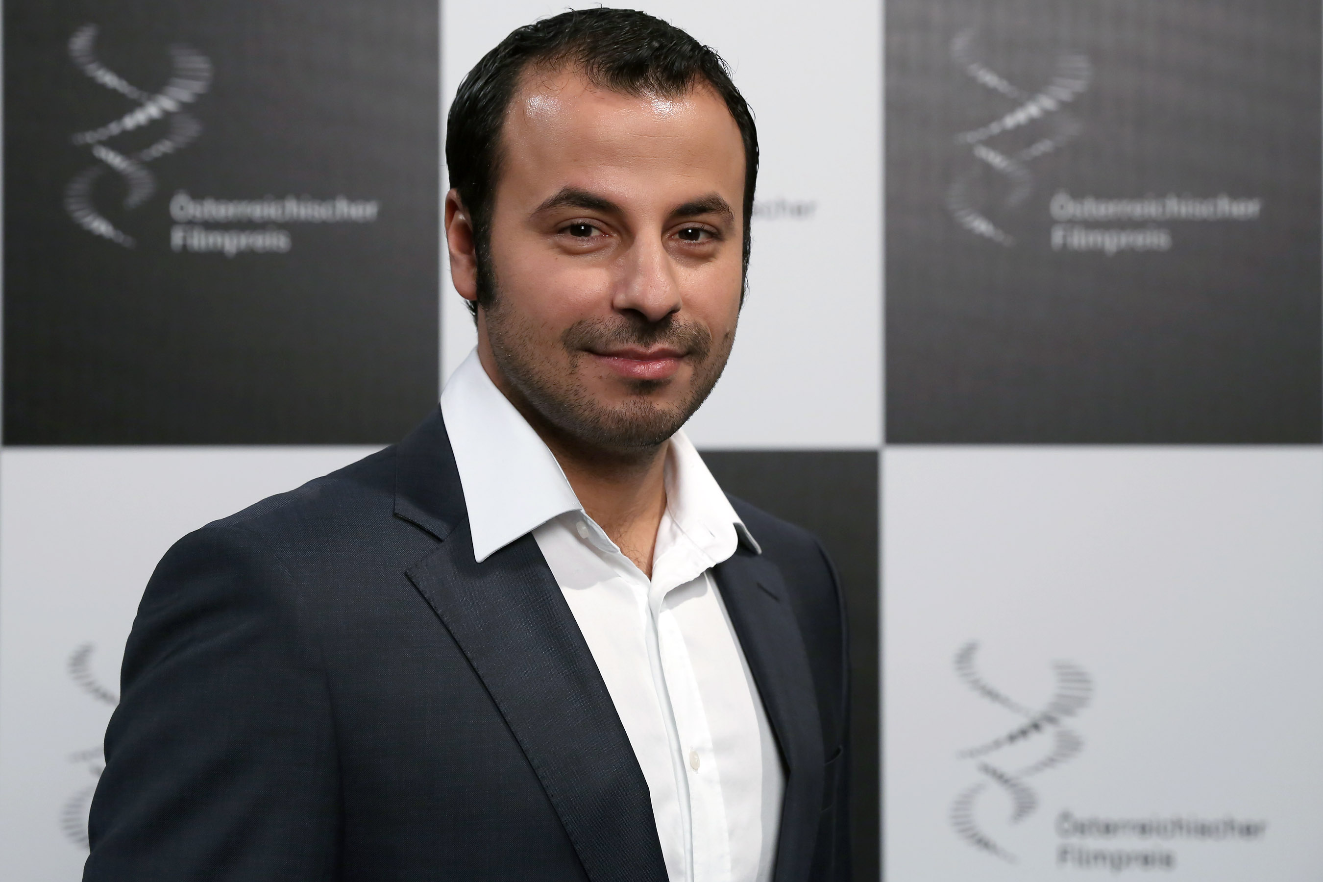 Hüseyin Tabak (best director, best script, best movie: "Deine Schönheit ist nichts wert"), Austrian Film Awards 2014 (Grafenegg, Austria).